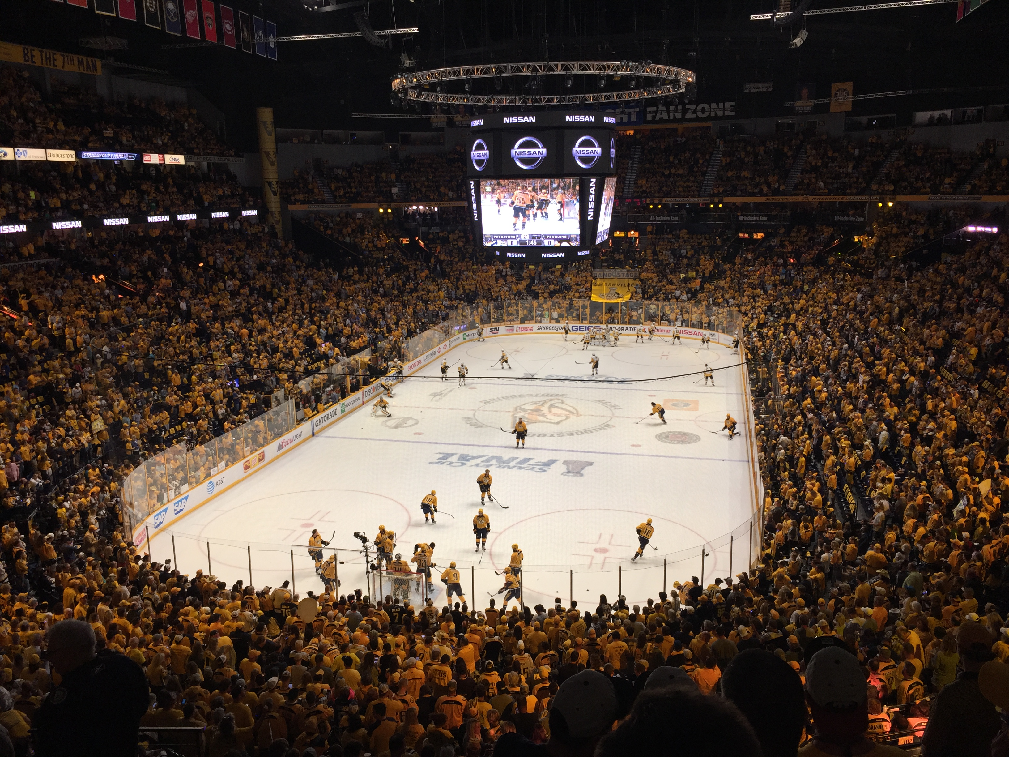 The Nashville Predators playing at Bridgestone Arena in Nashville (2017)